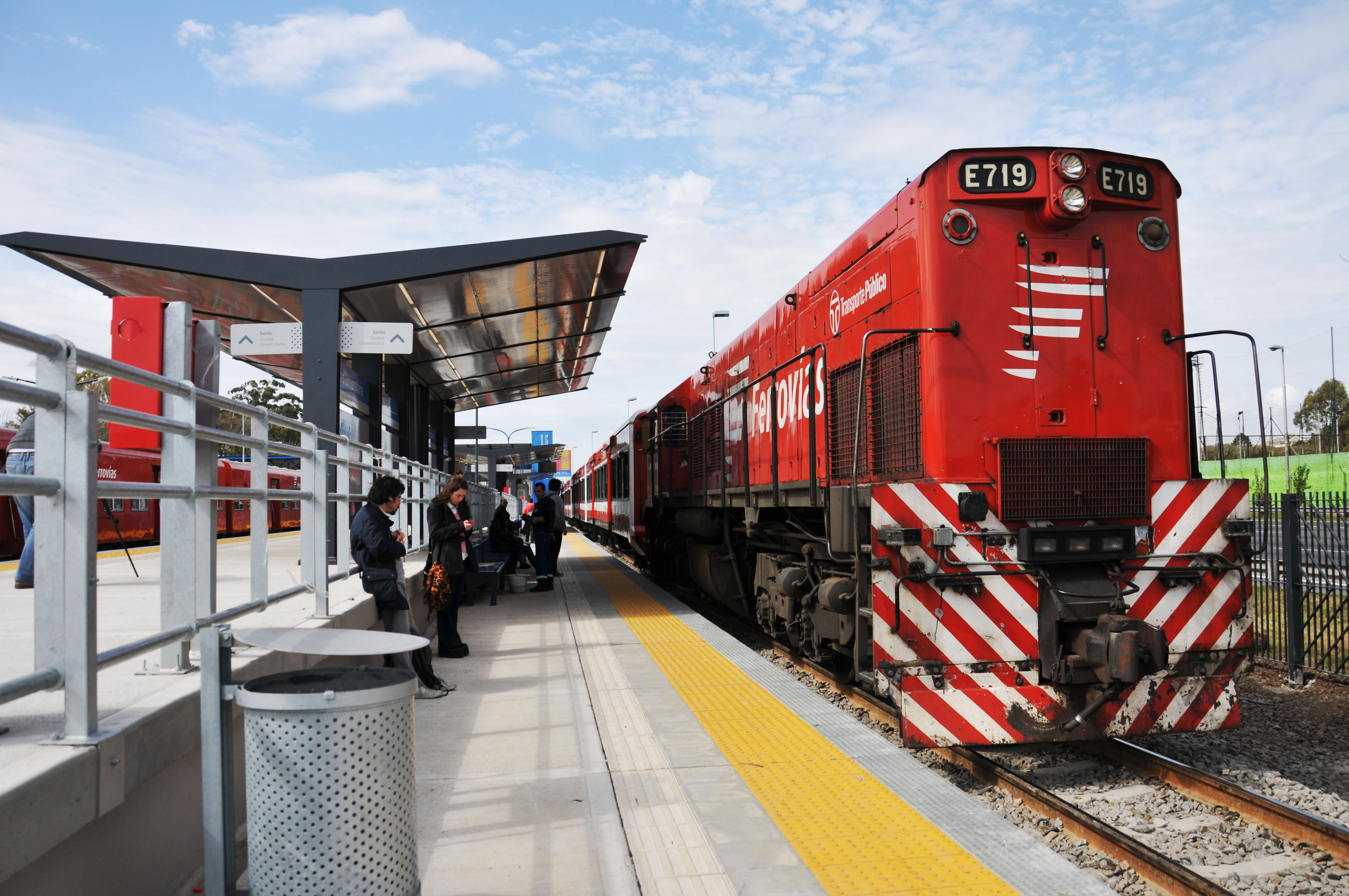 Ferrovias train at Ciudad Universitaria train station on the Belgrano Norte Line in Buenos Aires.